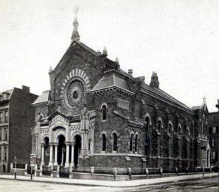 Public Buildings in New York City and Vicinity, c.1870, View of the Church of the Messiah, E. 34th St. and Park Ave